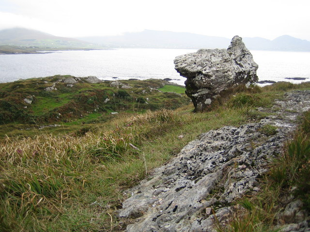 The Cailleach Beara or the Hag of Beara Legend has it that this rock represents the fossilized remains of the face of the Cailleach Beara awaiting her husband Manannan, God of the Sea, to return to her. Her presence still haunts visitors who leave coins, trinkets and all sorts of other small offerings, on and around the rock.